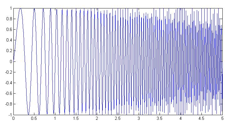 chirp function